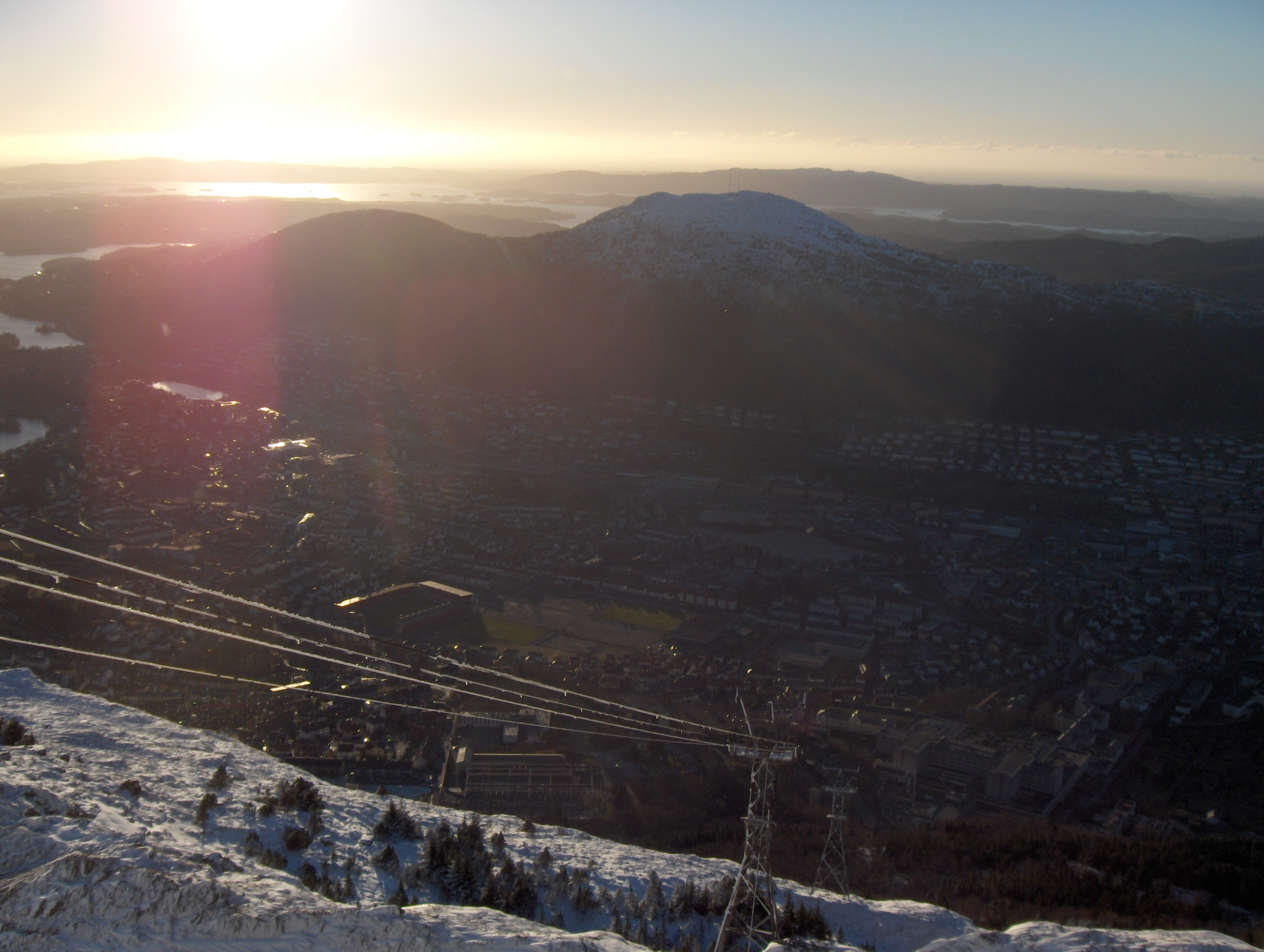 Bergen valley towards the west, and Løvstakken. We can notice the SK brann stadium. Author : Thomas Moine